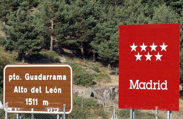 Alto del León (1511 m.) in Sierra de Guadarrama